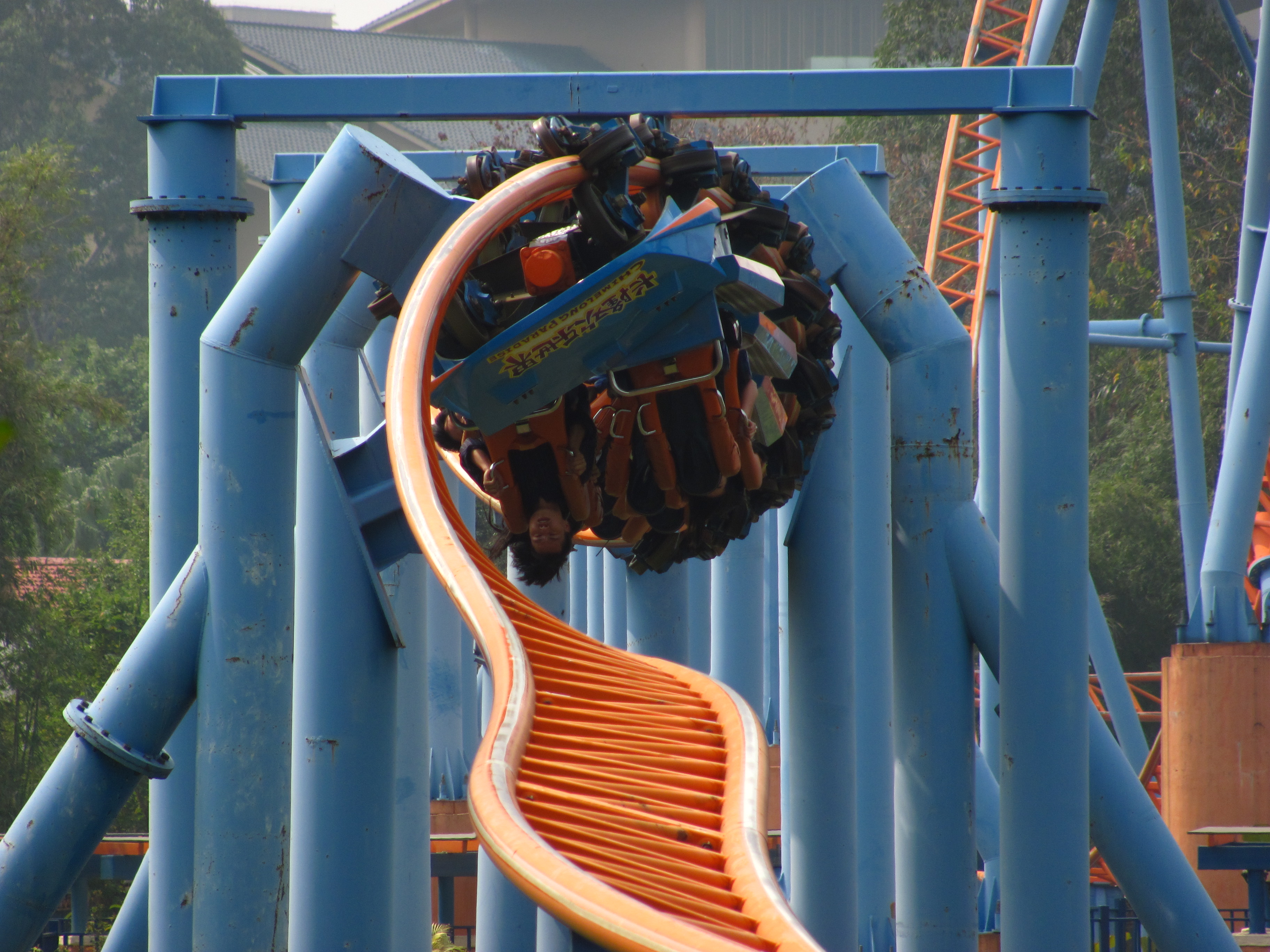 10 Inversion Roller Coaster, Chime-Long Paradise, China